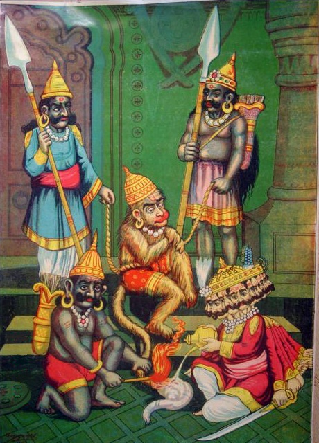 Hanuman then allows himself to be captured by Ravana, who sets his tail on fire; bazaar art, c.1910's